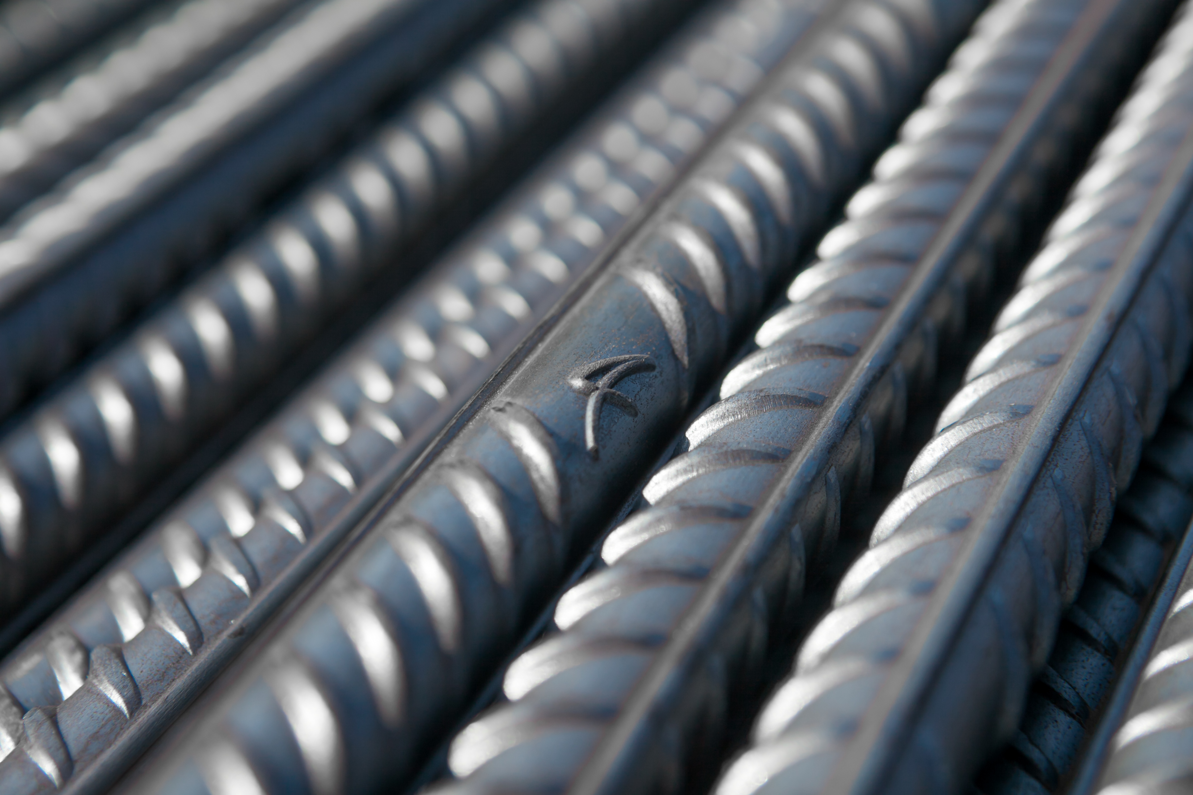 Reinforcing bars manufactured by ArcelorMittal Kryvyi Rih